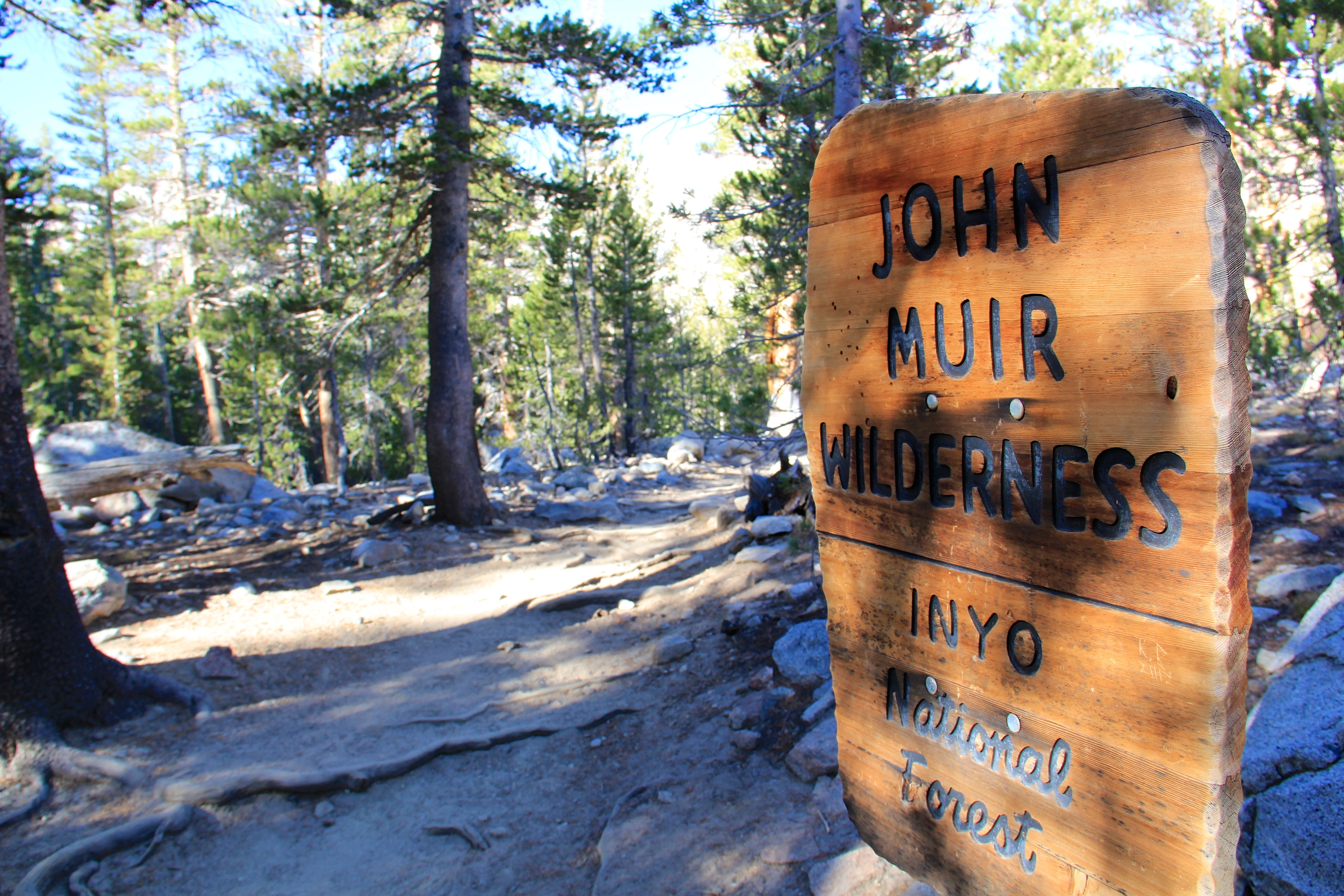 @Bishop Pass Trail, California